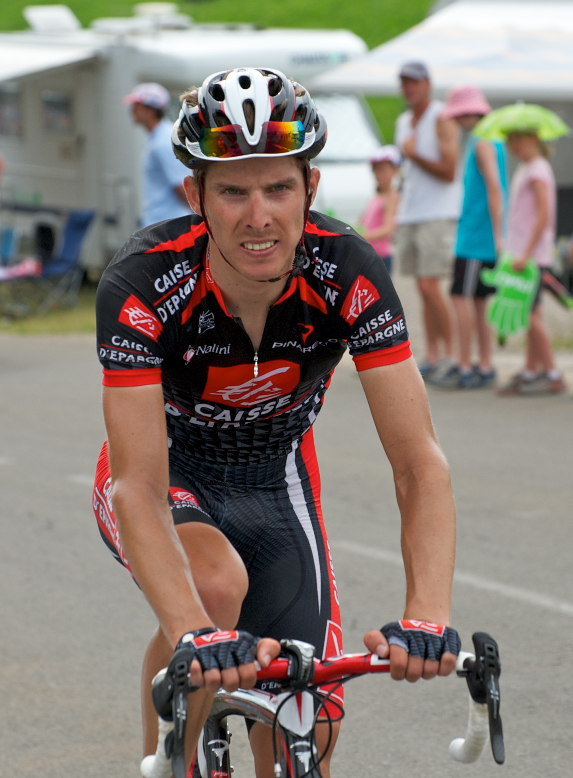 Costa is currently most famous for having got in a fight with Carlos Barredo at the end of an earlier stage after Barredo accused him of elbowing. Barredo removed the front wheel from his bike and attacked Costa with it..